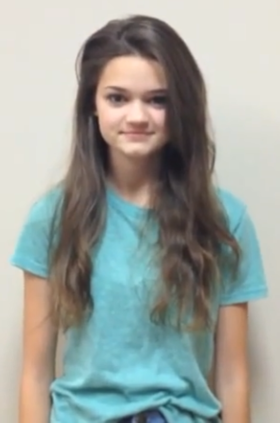 Ciara Bravo in 2013